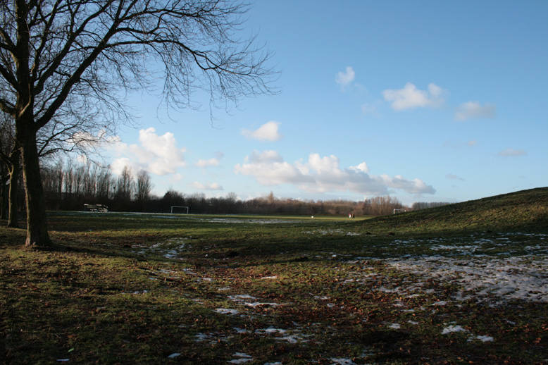 The Ommoordse Field in Rotterdam-Ommoord.